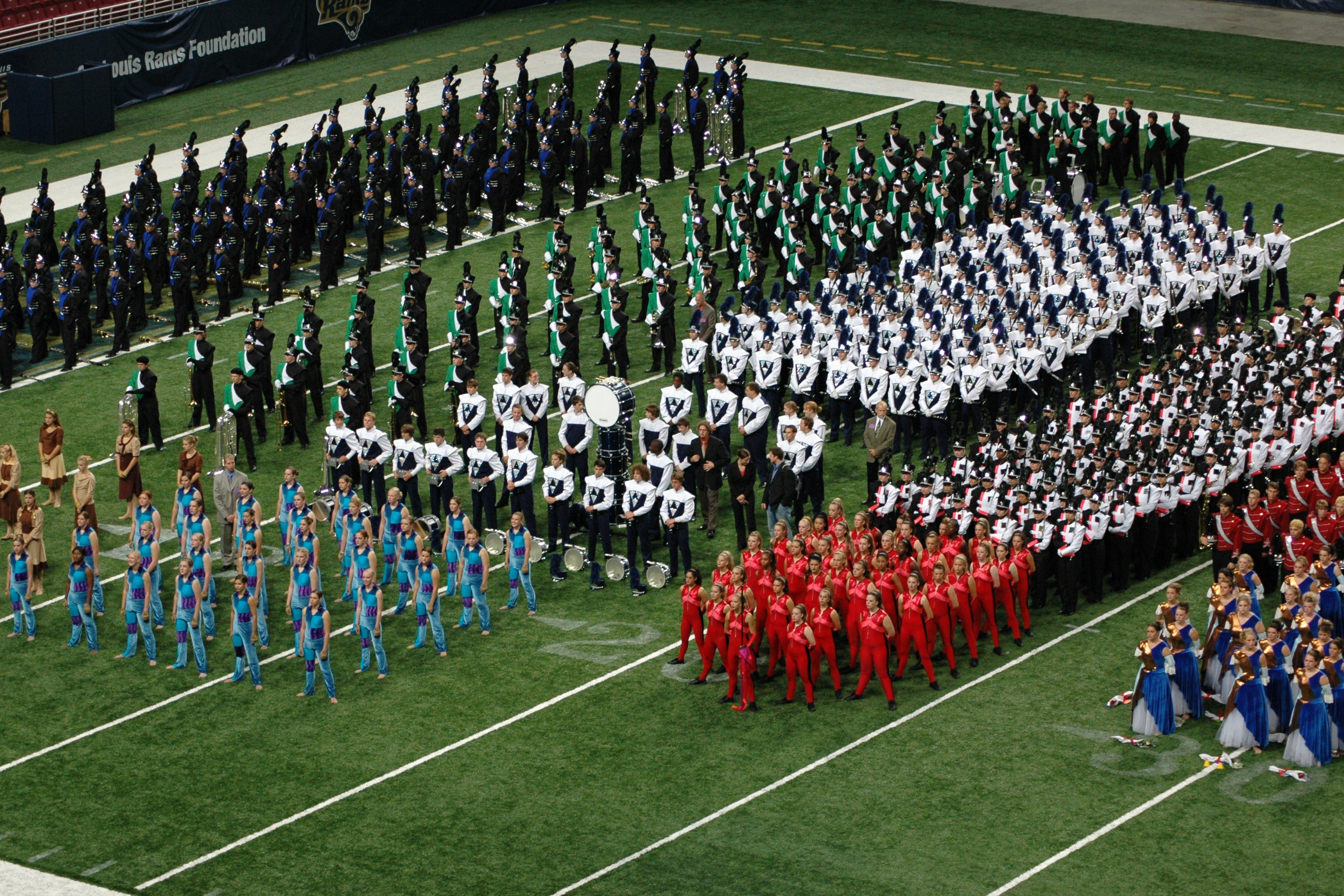 Taken by Brian Reber